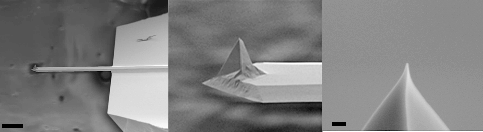 Scanning Electron Microscope images of increasing magnification of a conductive coated scanning probe